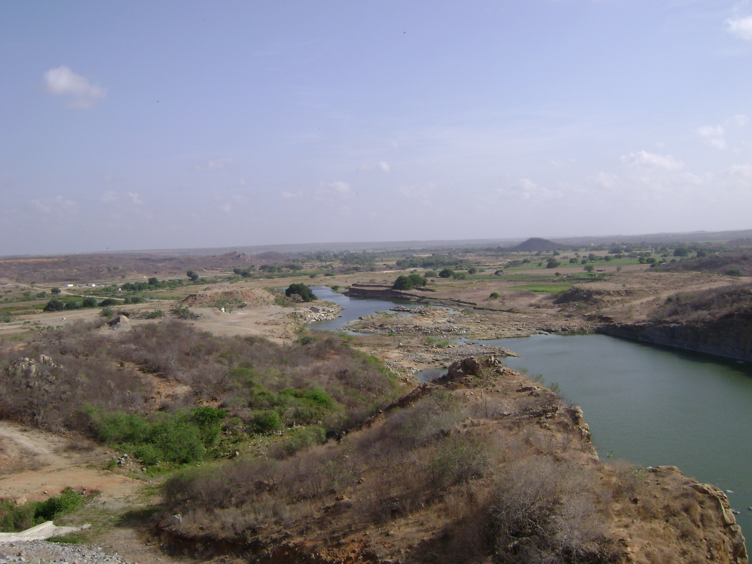 BARRAGEM DO CASTANHÃO